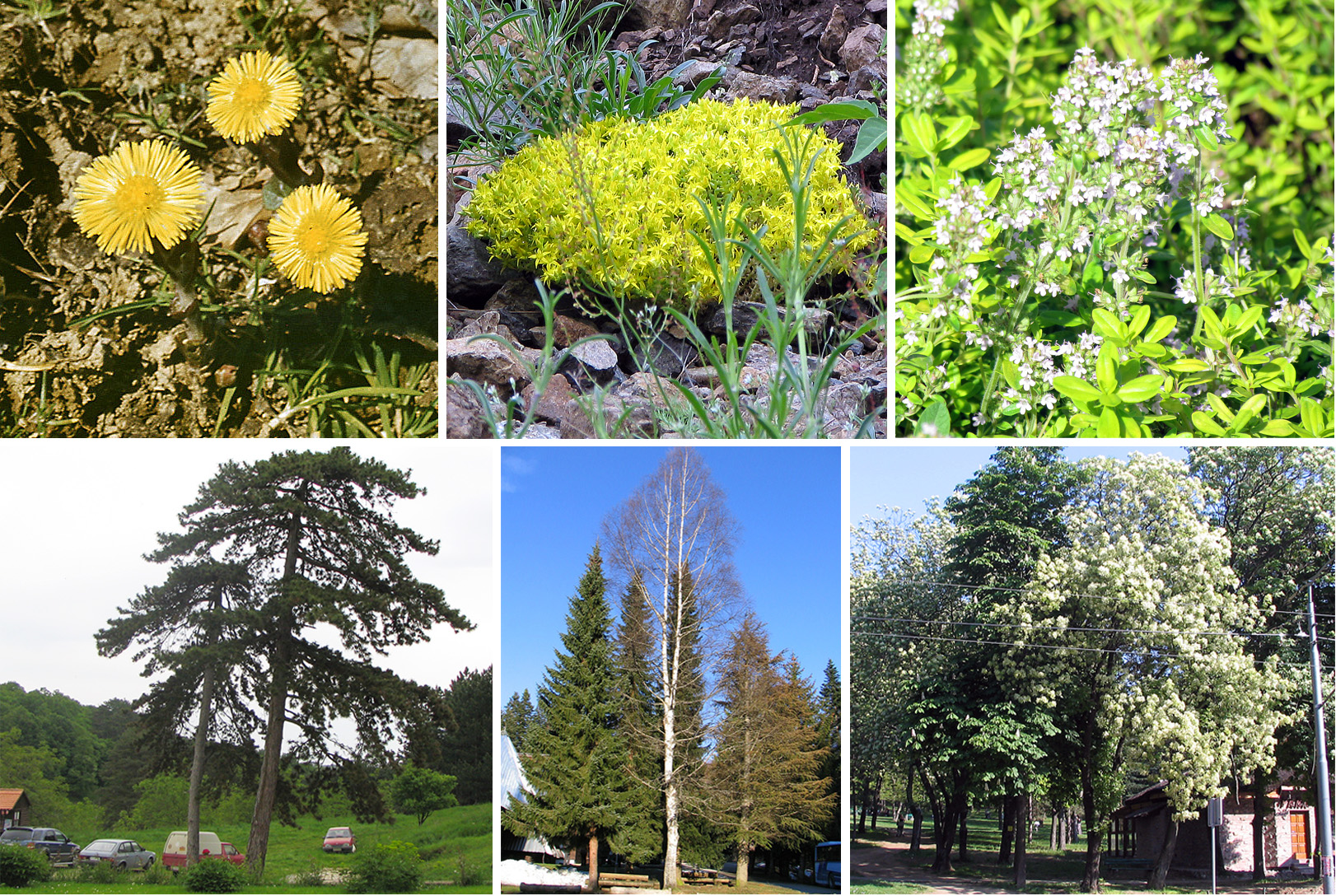 Heliophytes: Tussilago farfara, Sedum acre, Thymus, Pinus nigra, Betula pendula, Fraxinus ornus.